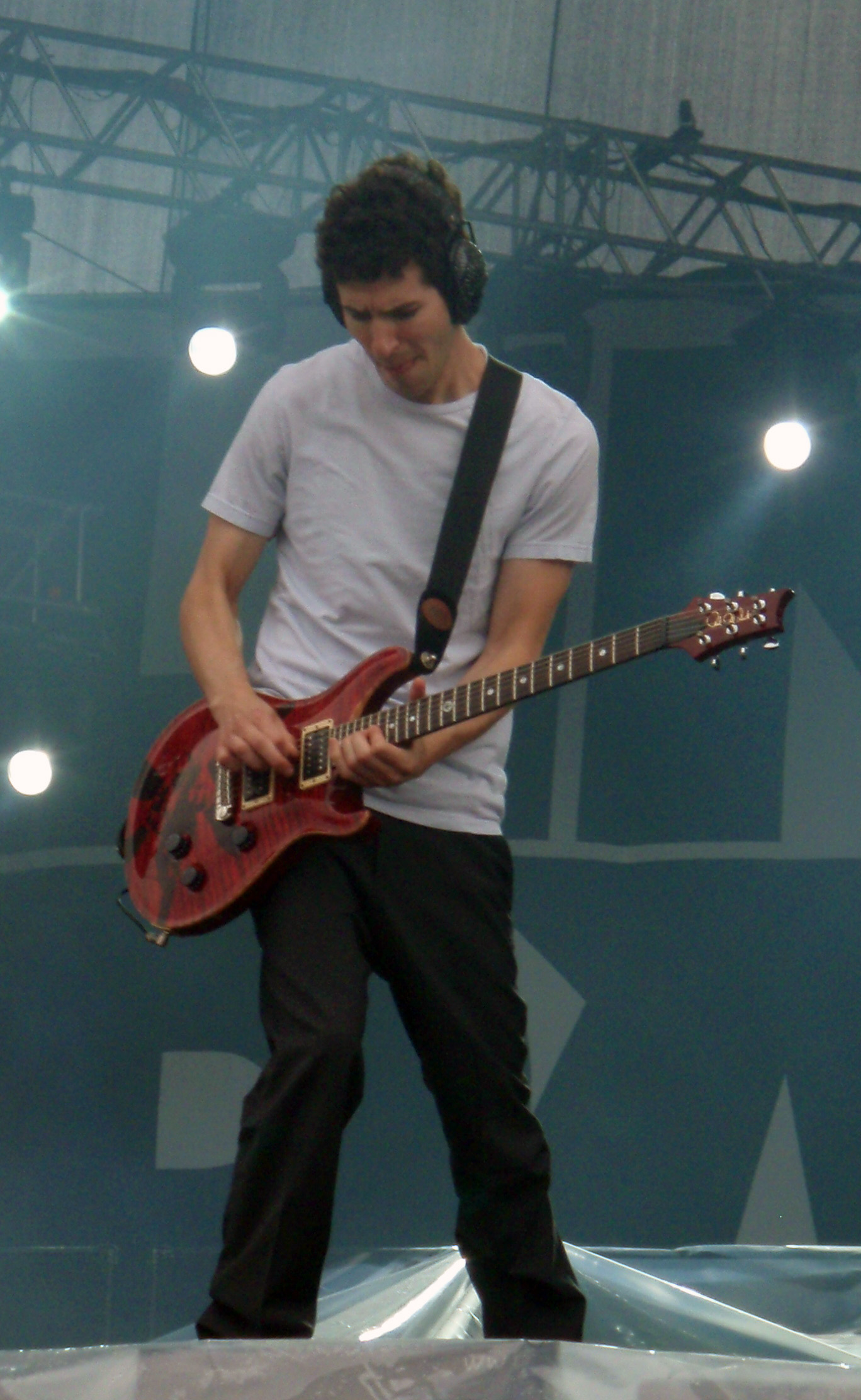 Brad Delson from Linkin Park performing at Sonisphere Festival in Kirjurinluoto, Pori, Finland.